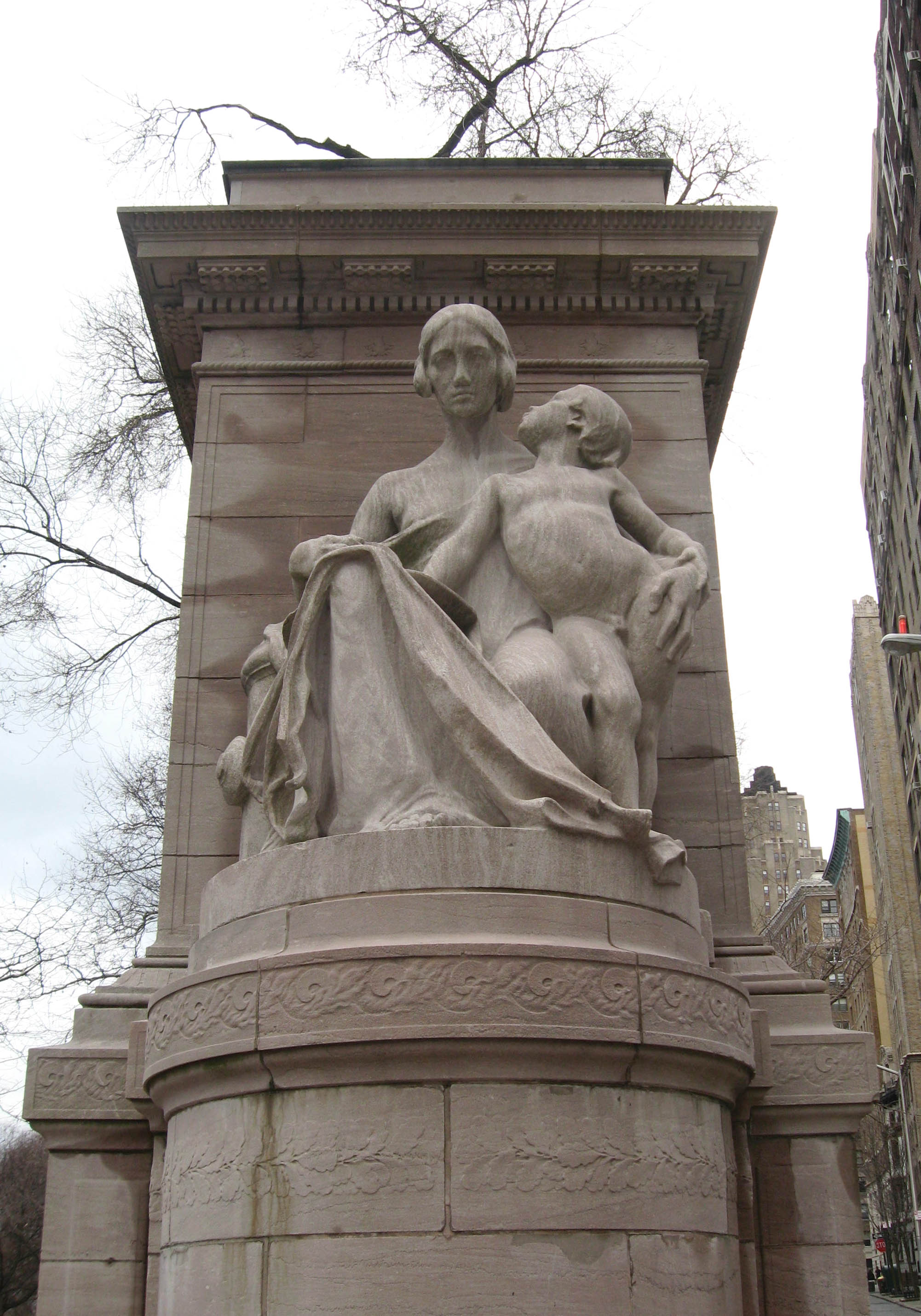 Looking north at Firemen's Memorial at the foot of West 100th Street, Manhattan on a cloudy midday.